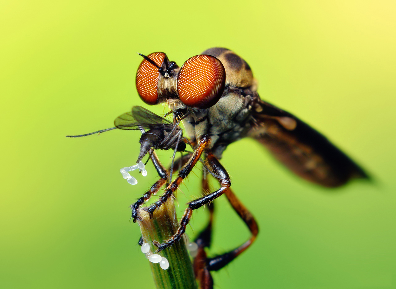 Robber Fly with prey (Holcocephala fusca)